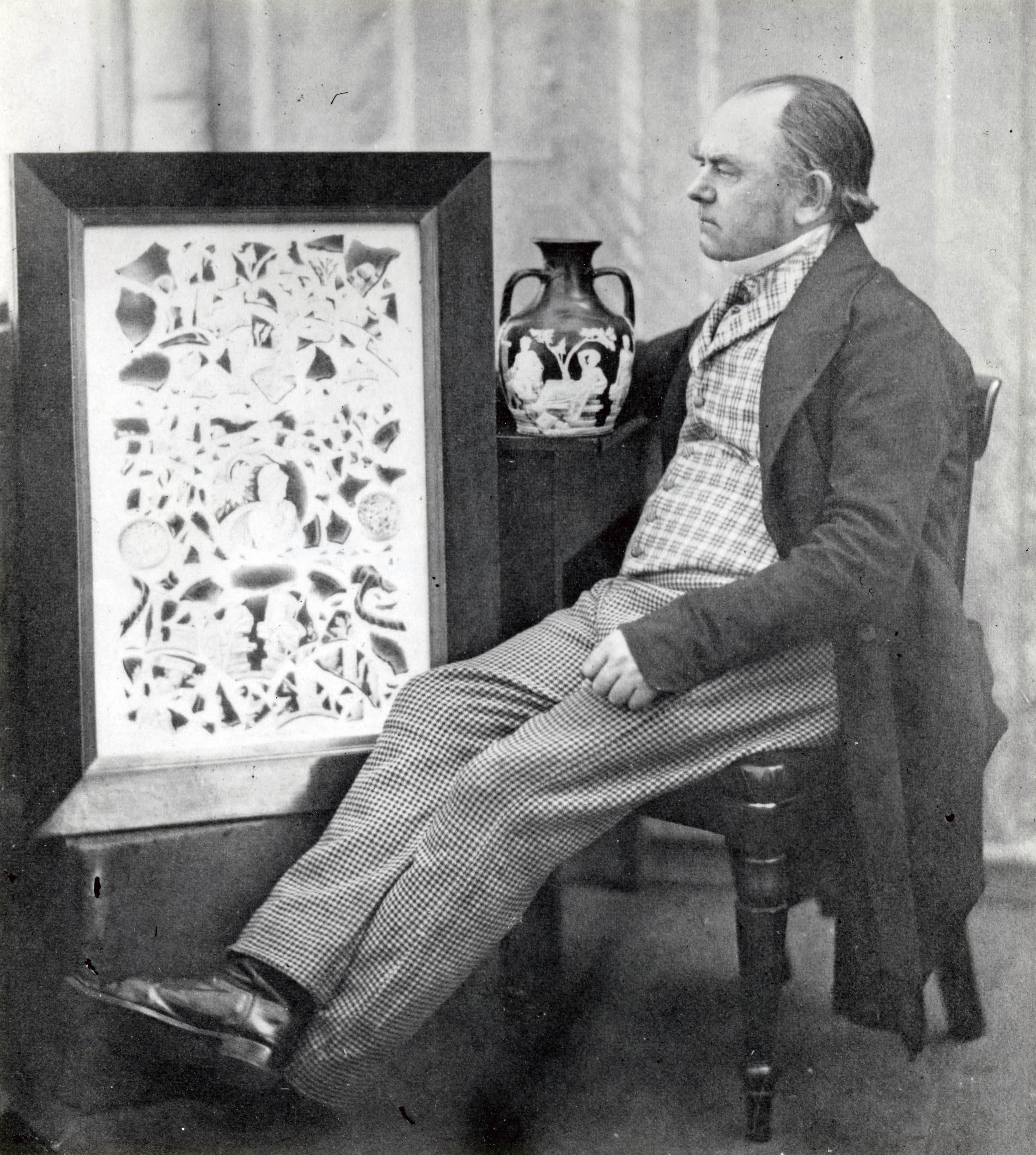 Black & white photograph of John Doubleday with the Portland Vase